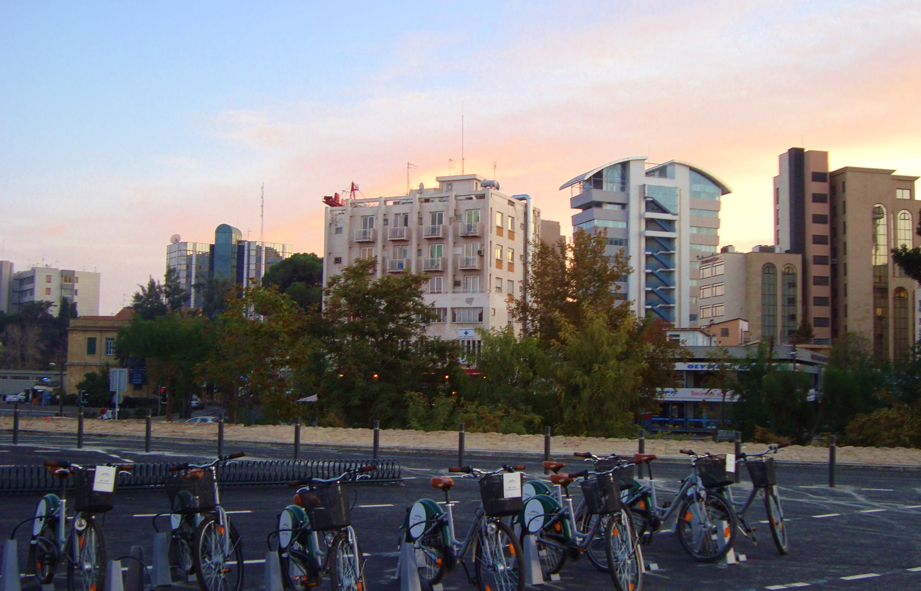 New Public Buses in Nicosia Republic of Cyprus in the afternoon